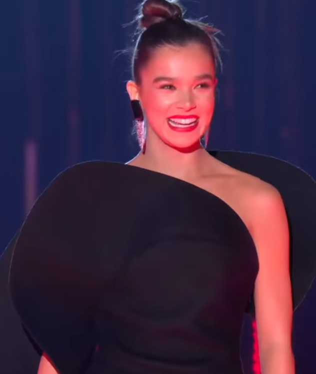 Hailee Steinfeld experiments with the stage controls at the MTV European Music Awards 2018.